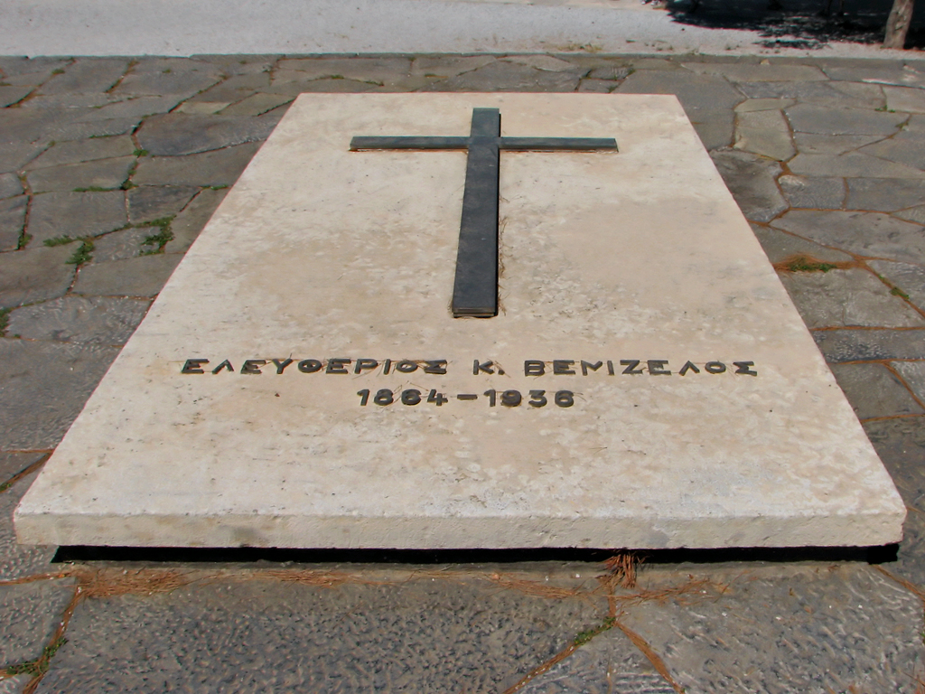 Eleftherios Venizelos gravestone in Akrotiri, (Chania) Greece.